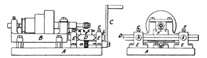 Line drawing of a milling machine in use in a firearms factory in Middletown, Connecticut, USA, by 1818. It was described by E.G. Parkhurst, who had seen it in 1851 and gathered information about it then from Robert Johnson, who dated it to 1818. Another of the people associated with its development is Simeon North. It has often been described as "the first milling machine", as has another contemporary machine long credited to Eli Whitney and dated circa 1818, although today's scholarship in the history of technology makes clear that milling practice and equipment evolved from rotary filing gradually enough, and among enough builders, that it cannot be said with accuracy that the builders of this machine "invented" the milling machine. One of the interesting aspects of this machine is its striking similarity (through modern eyes) to a turret lathe headstock and front slide, minus the rest of the lathe. These echoes underscore the mixing and matching of machine elements that characterizes machine tool innovation. Such recombining would produce the turret lathe some 25 years later.